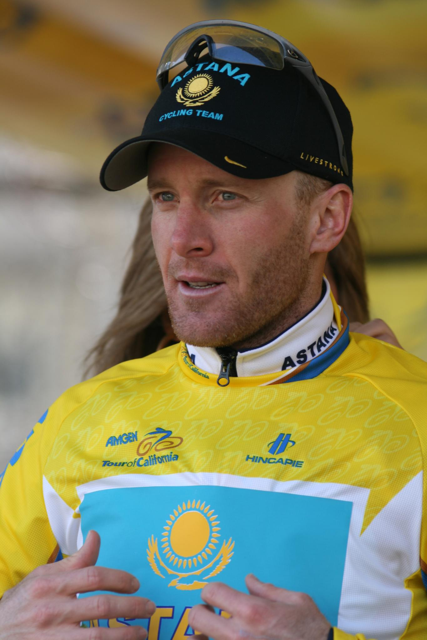 Levi Leipheimer took second place today and took the yellow jersey in Stage 2 of the Amgen Tour of California in Santa Cruz